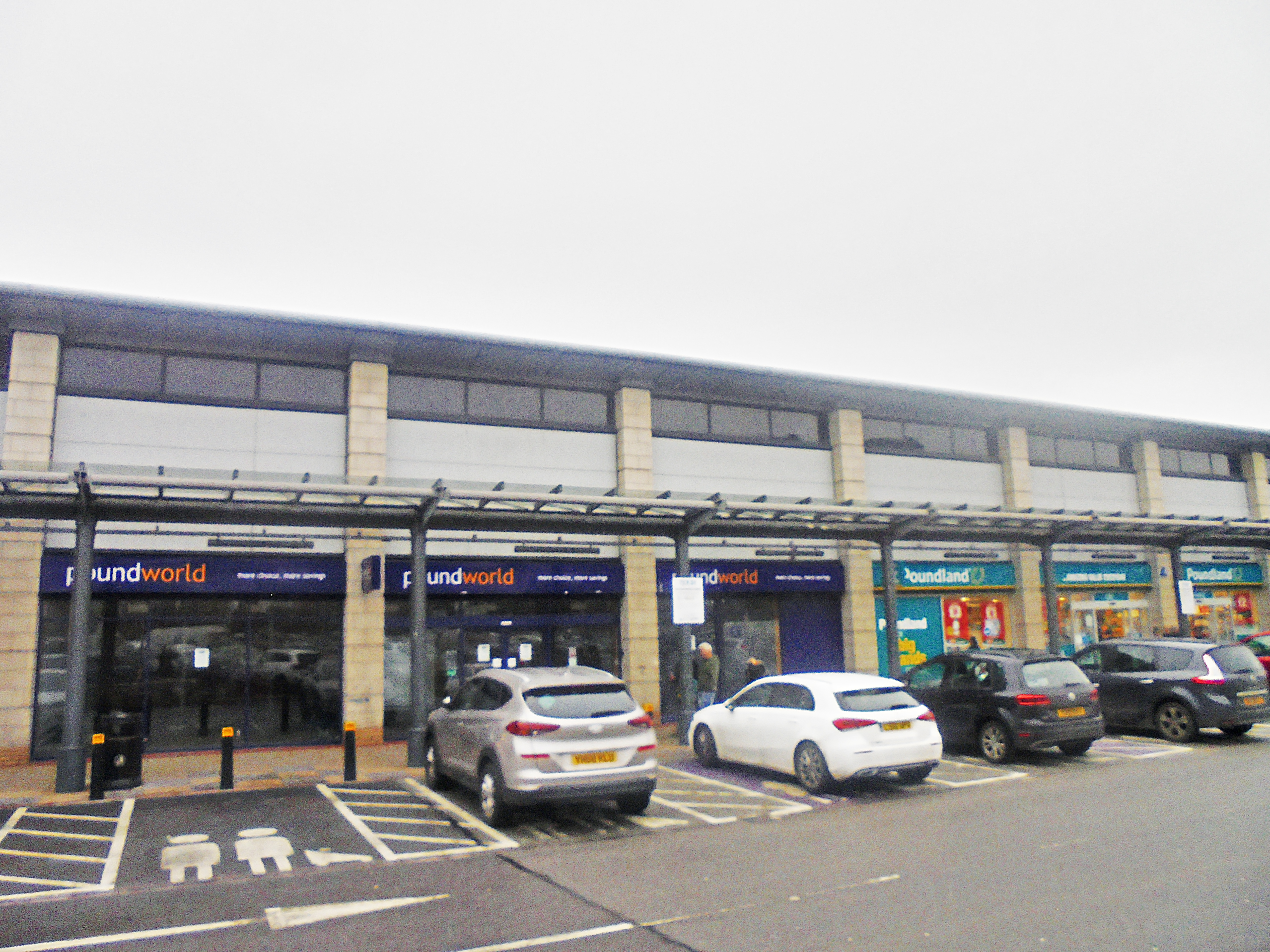 Pound shop wars... Poundworld and Poundland, Seacroft Green Shopping Centre, Seacroft, Leeds, West Yorkshire. Taken on the afternoon of Sunday the 24th of November 2019.